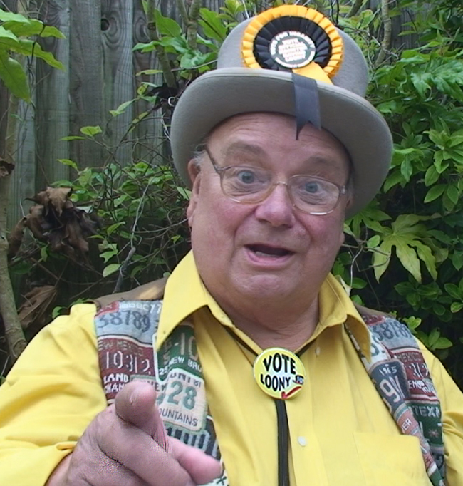 Still taken from an Acabashi video of Alan 'Howling Laud' Hope, leader of the Monster Raving Loony Party: 1.30pm, 26 August 2010, at the Prince Arthur public house, 238 Fleet Road, Fleet, Hampshire England. Camcorder: Sony HDR-HC7E. Cropped and edited in Photoshop CS2 on 27 August 2010.Genre: Photographic portrait. IPTC Subject Code: N1TS G2KI